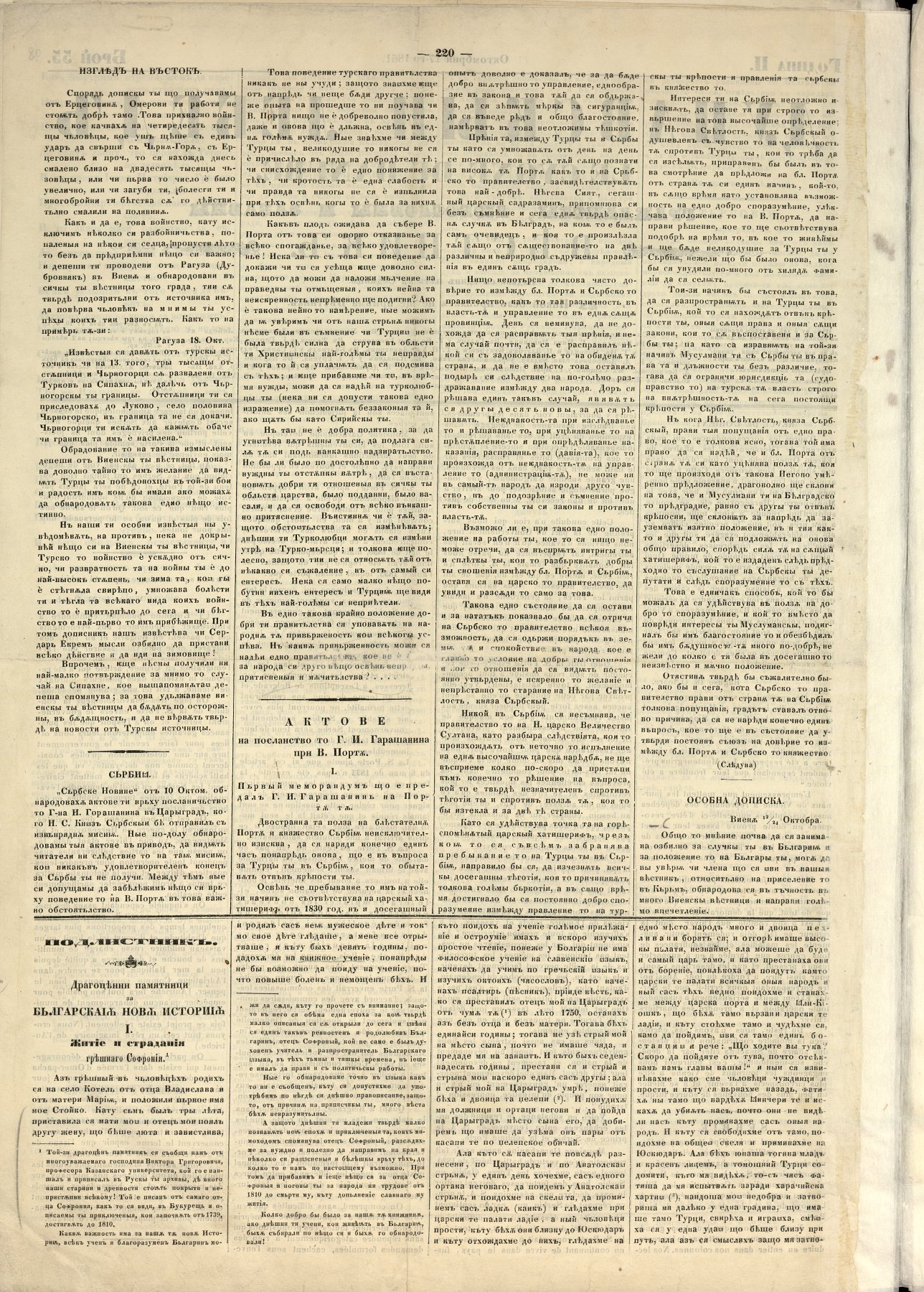 A page from Dunvaski Lebed, the newspaper in which Sophronius of Vratsa's autobiography was first published in 1861.